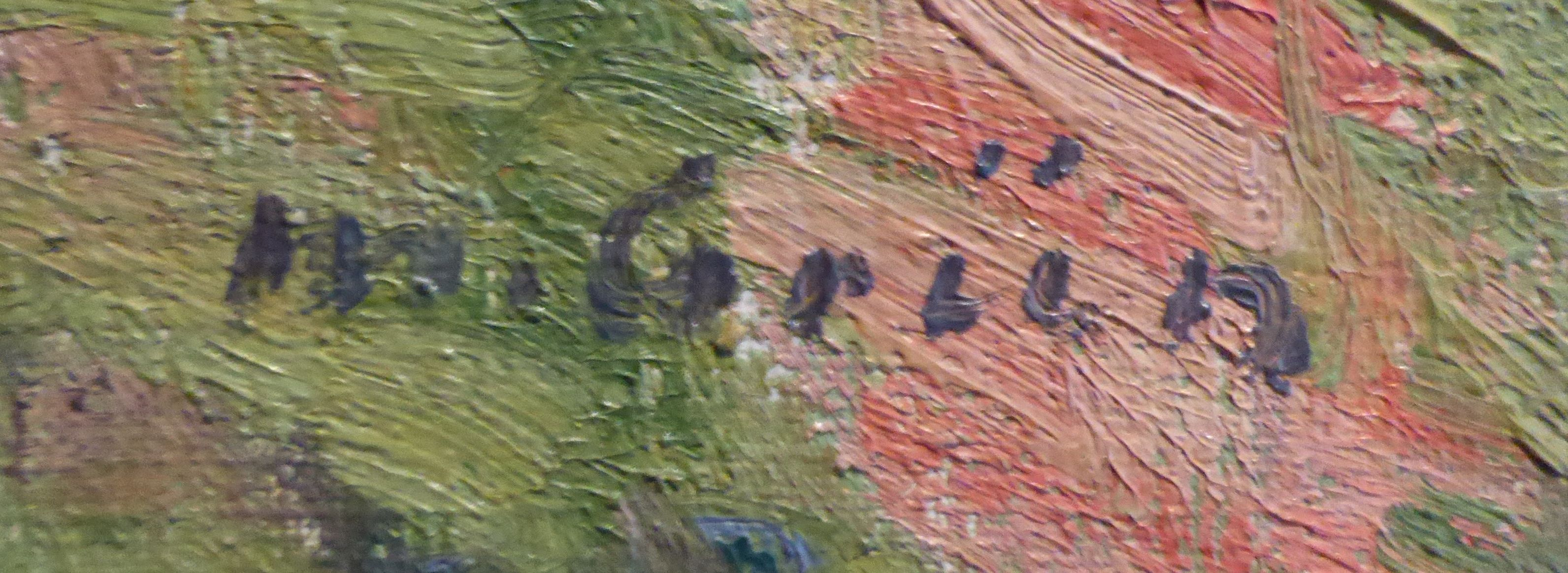 Photograph of a signature of a painting by Maurice Grün 1870-1947